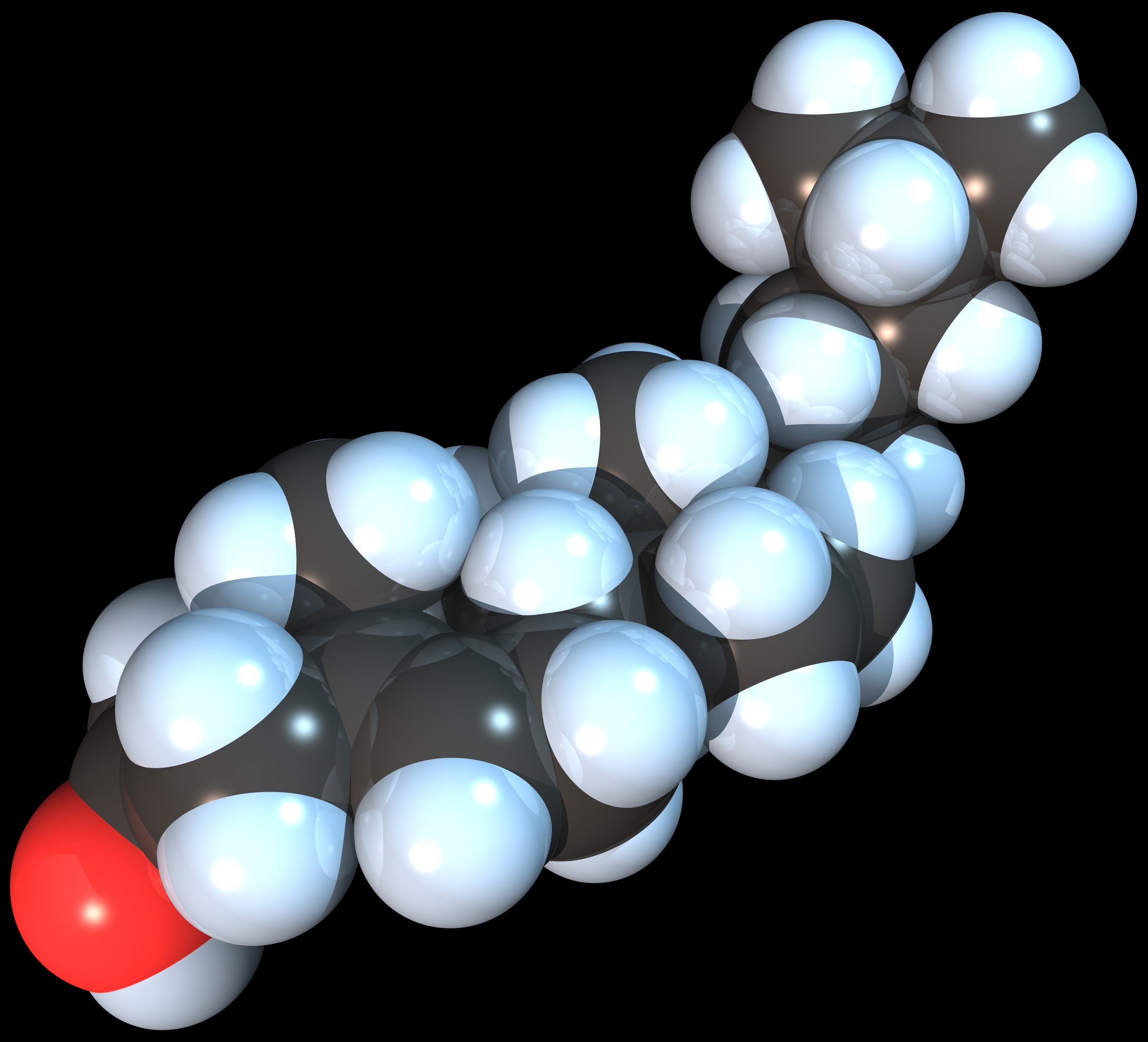 Spacefill model of the Cholesterol molecule